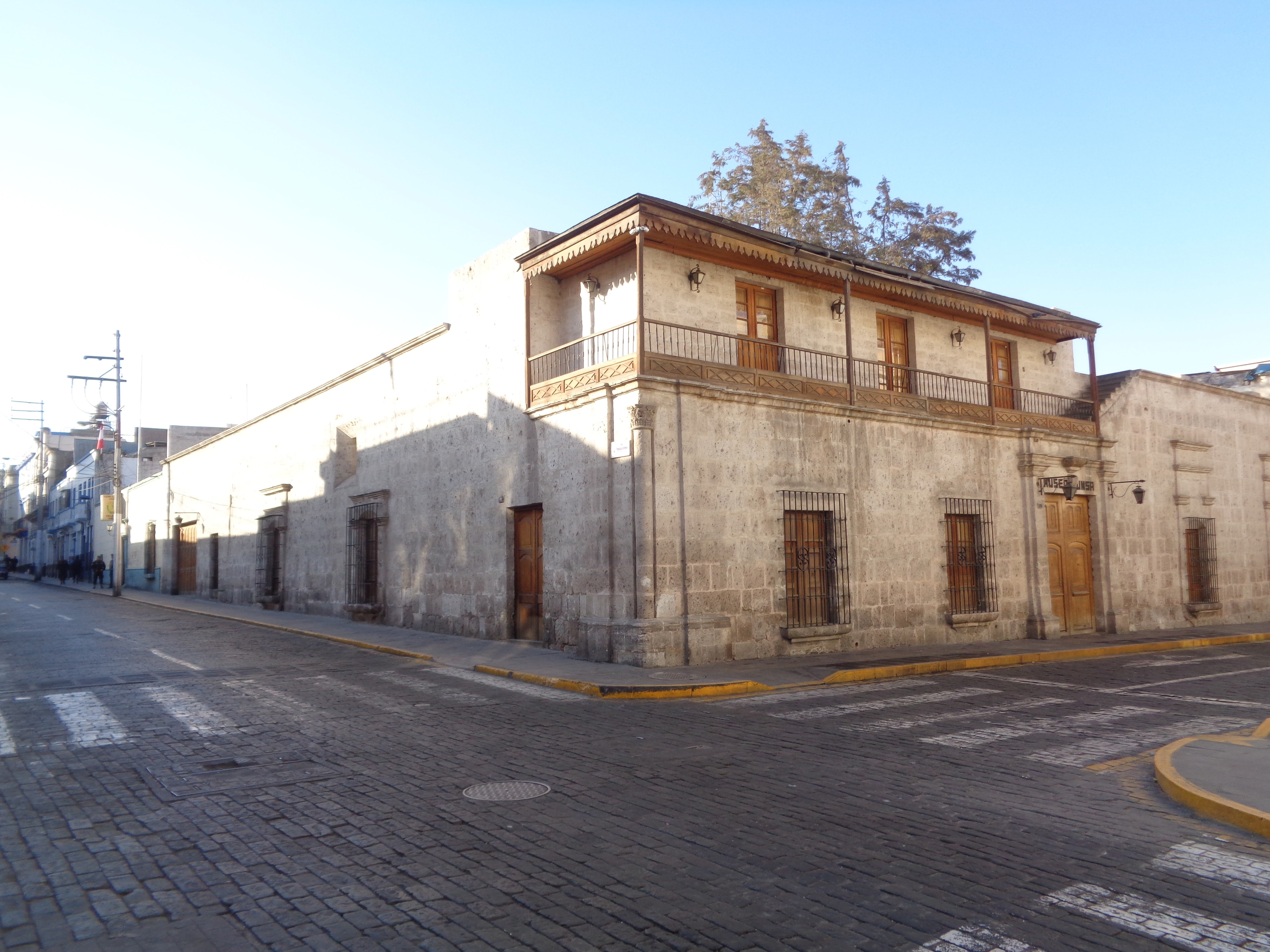 Museum of the National University of San Agustin de Arequipa